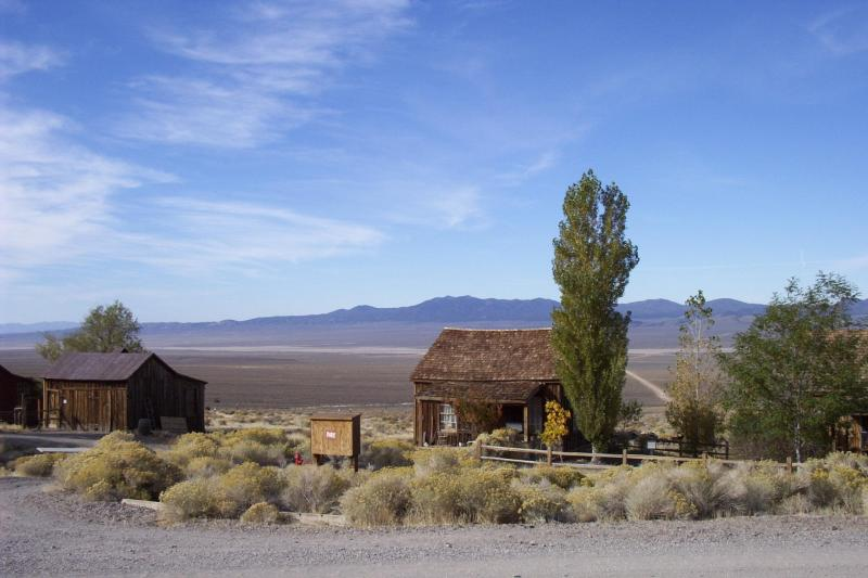 Photo taken in early 2004. The photographer releases all rights worldwide.